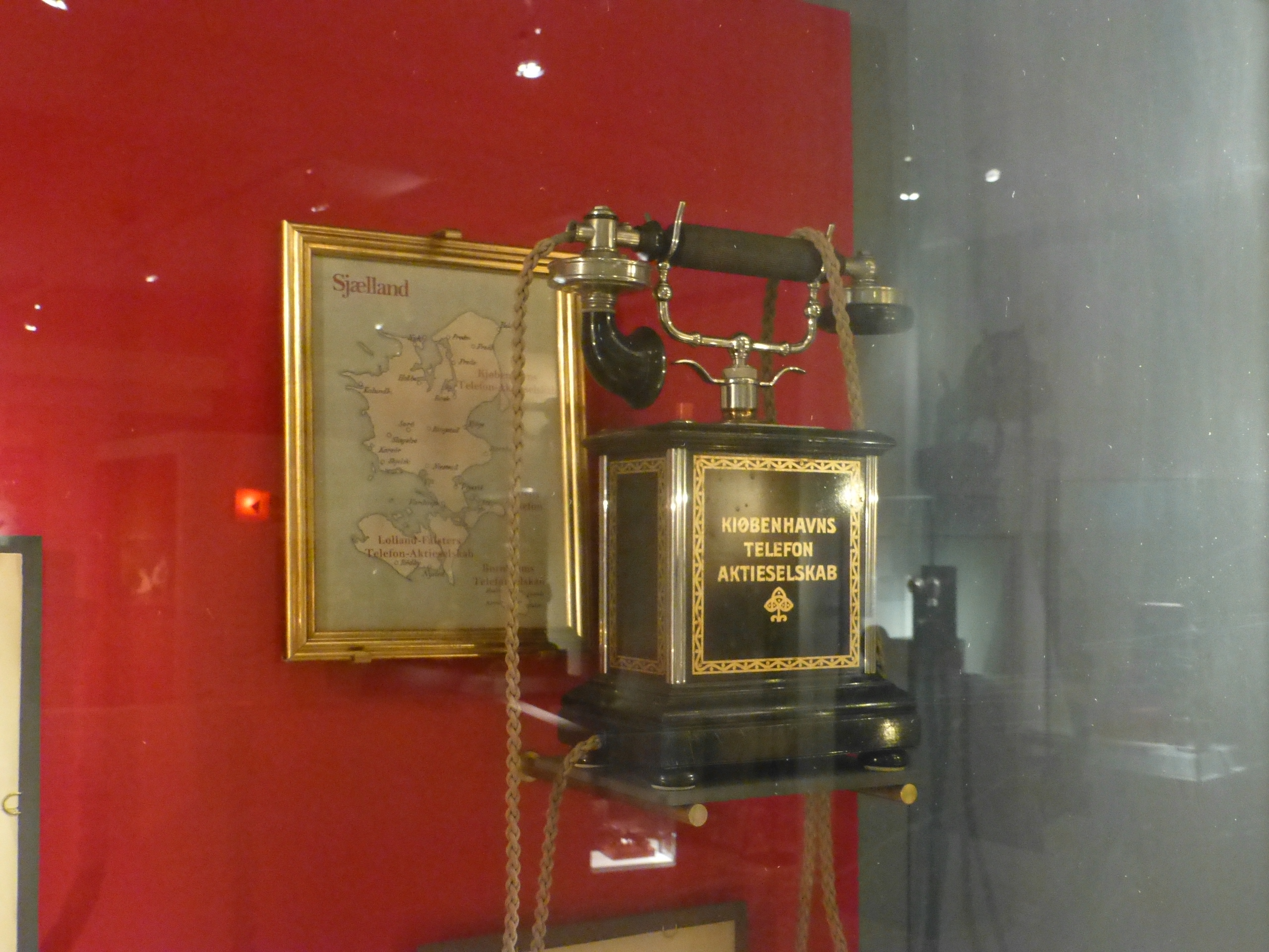 The Danish museum of communication, Post & Tele Museum, in Indre By in Copenhagen. Telephone from Kjøbenhavns Telefon Aktieselskab (KTAS).